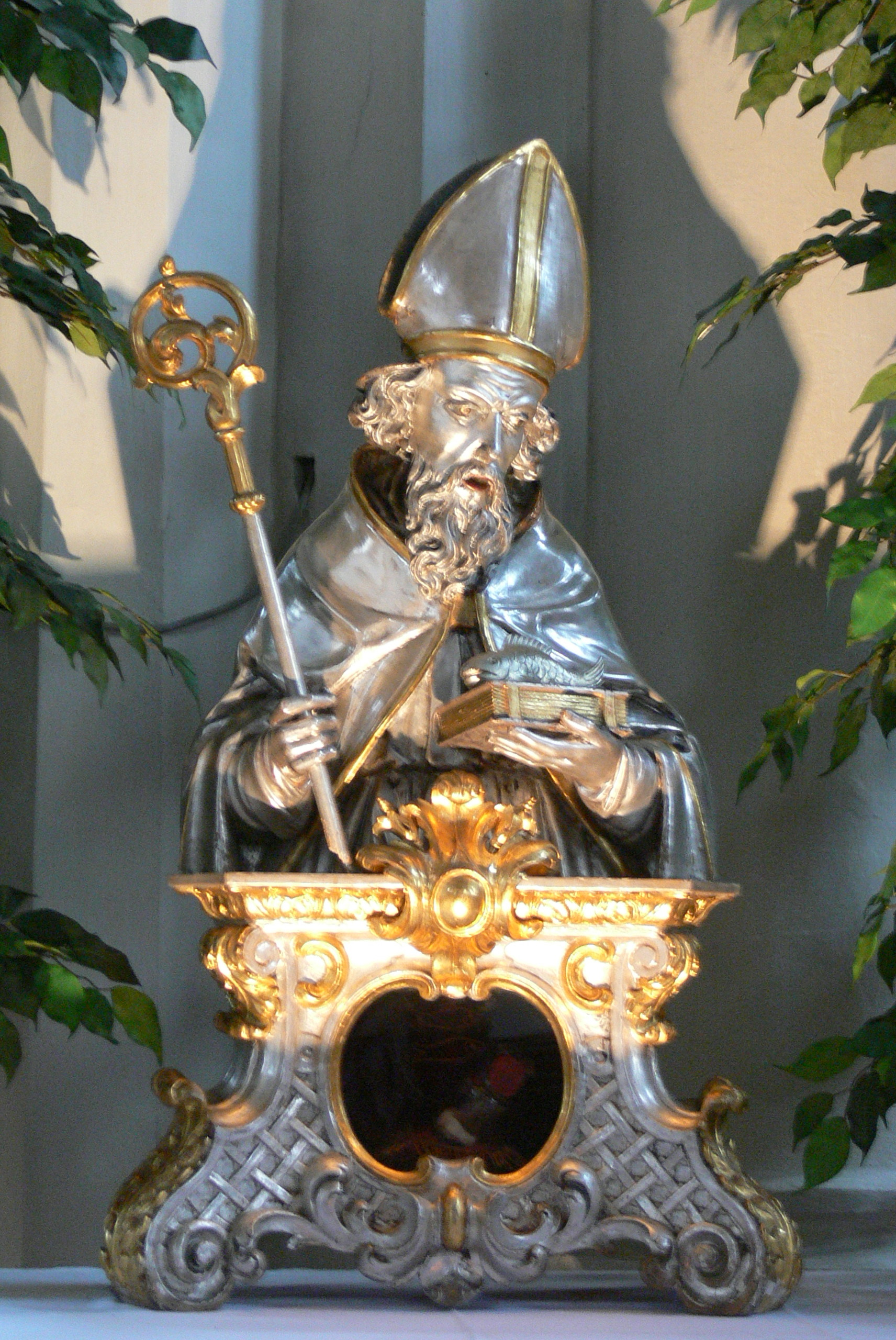 St.Zeno monastery church in Bad Reichenhall. Head reliquiary of Saint Zeno ( 1740 ).